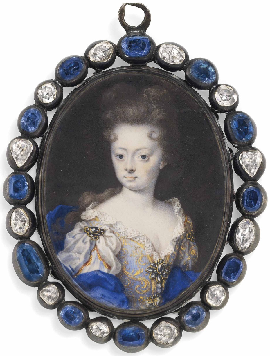 high, silver frame surrounded by rose-cut diamonds and sapphires, the reverse engraved with floral motif